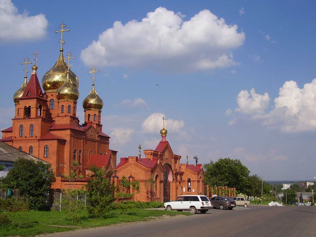 Ust'-Labinsk. Demjana Bednogo Street. Orthodox church (2000th years). Summer of 2008.